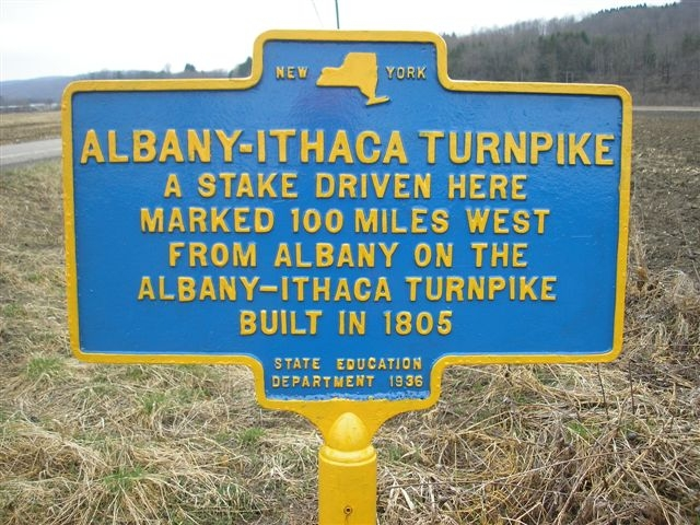 Historic marker in Smyrna, NY of the Albany Ithaca Turnpike